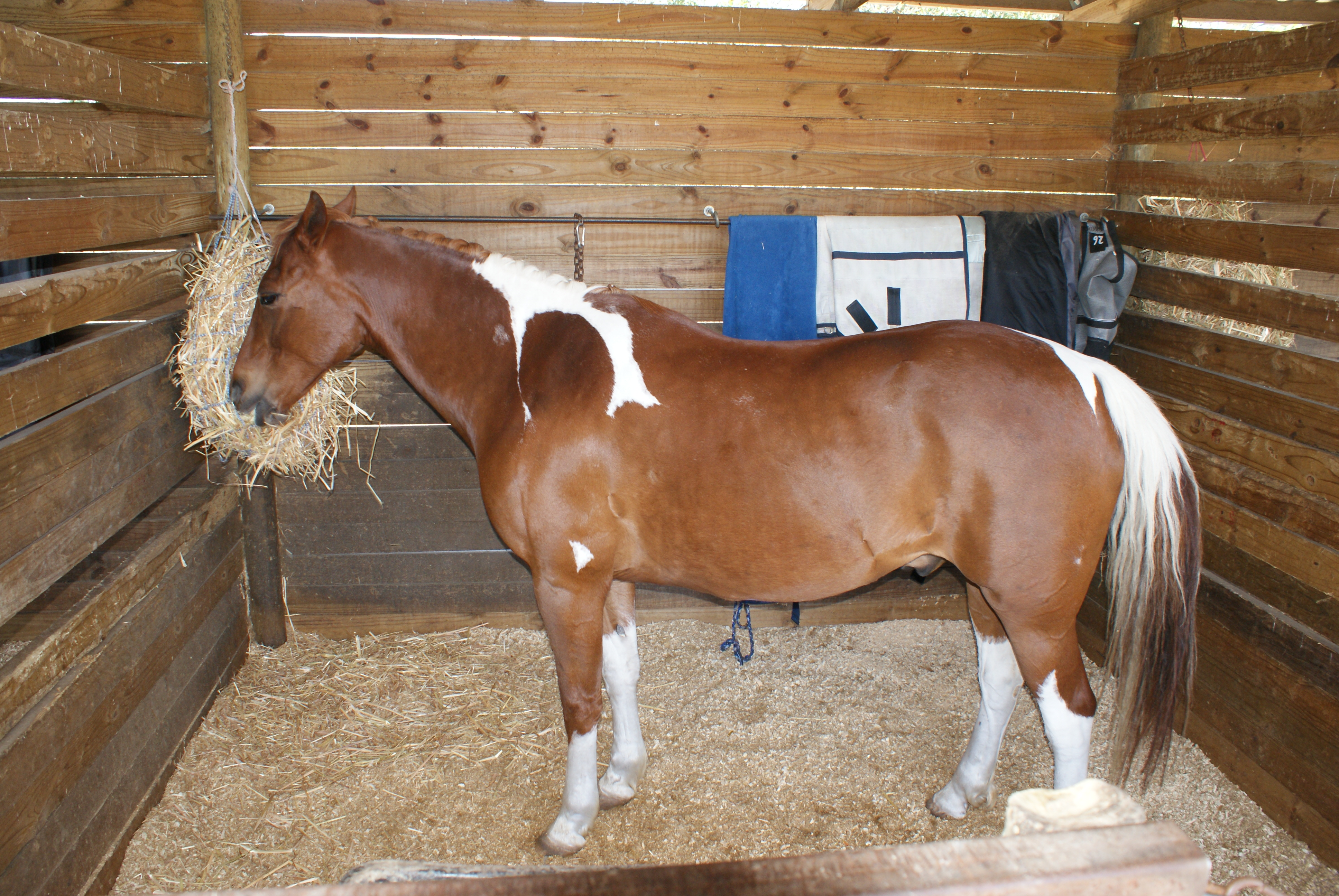 An eight year old 'Boerperd' or Boer Pony